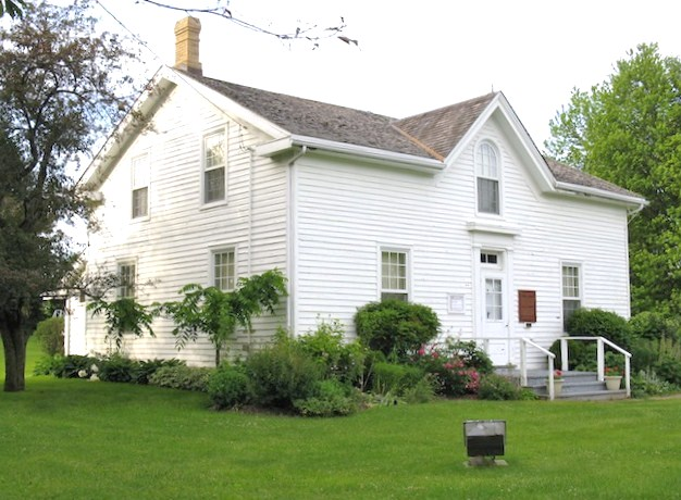 Adelaide Hunter Hoodless National Historic Site, St. George, Ontario. Other information If used outside Wikipedia, attribute to Yoho2001.